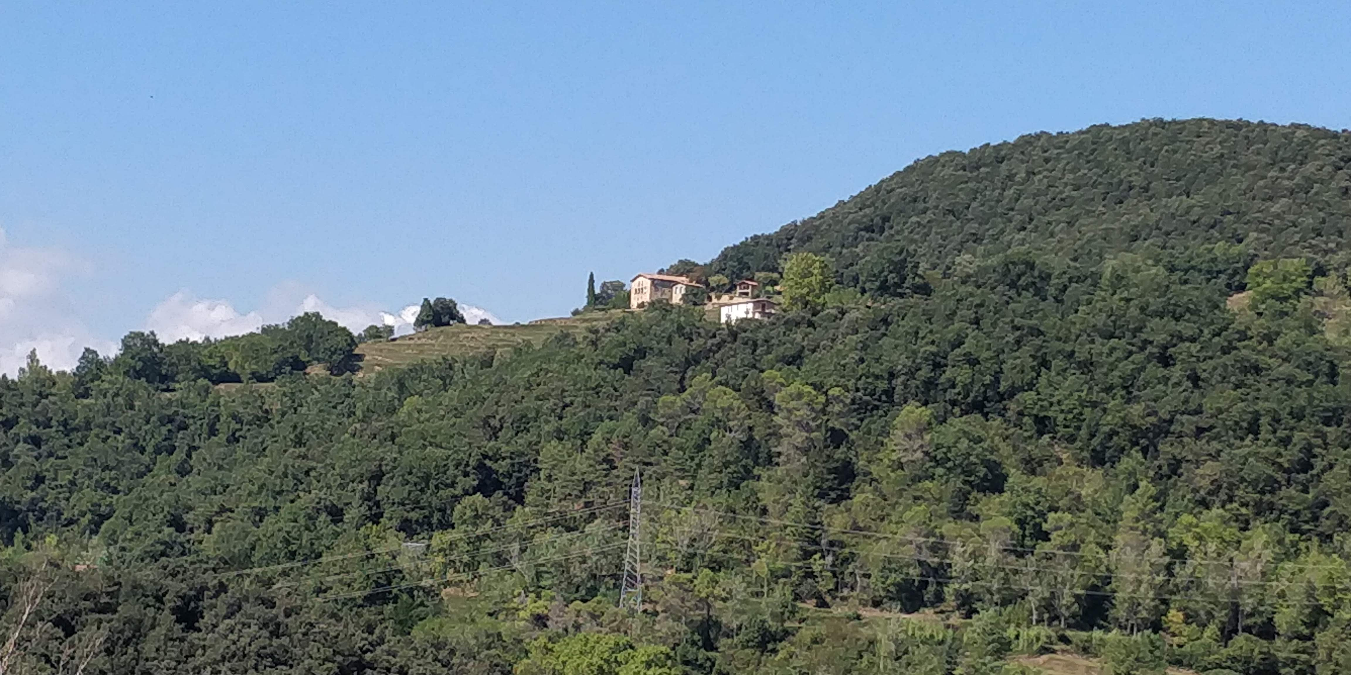 Olot, Masia del Ventolà. Wikidata has entry Q18004689 with data related to this item.